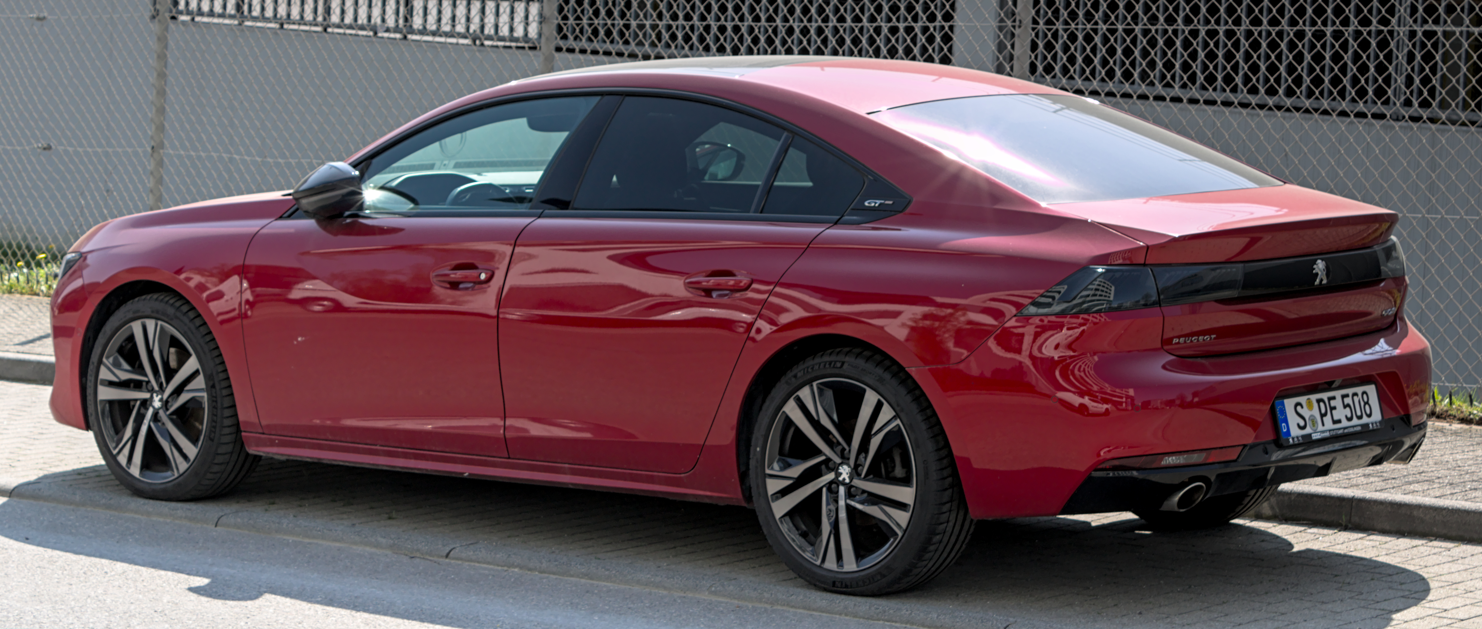 Peugeot_508_B in Stuttgart